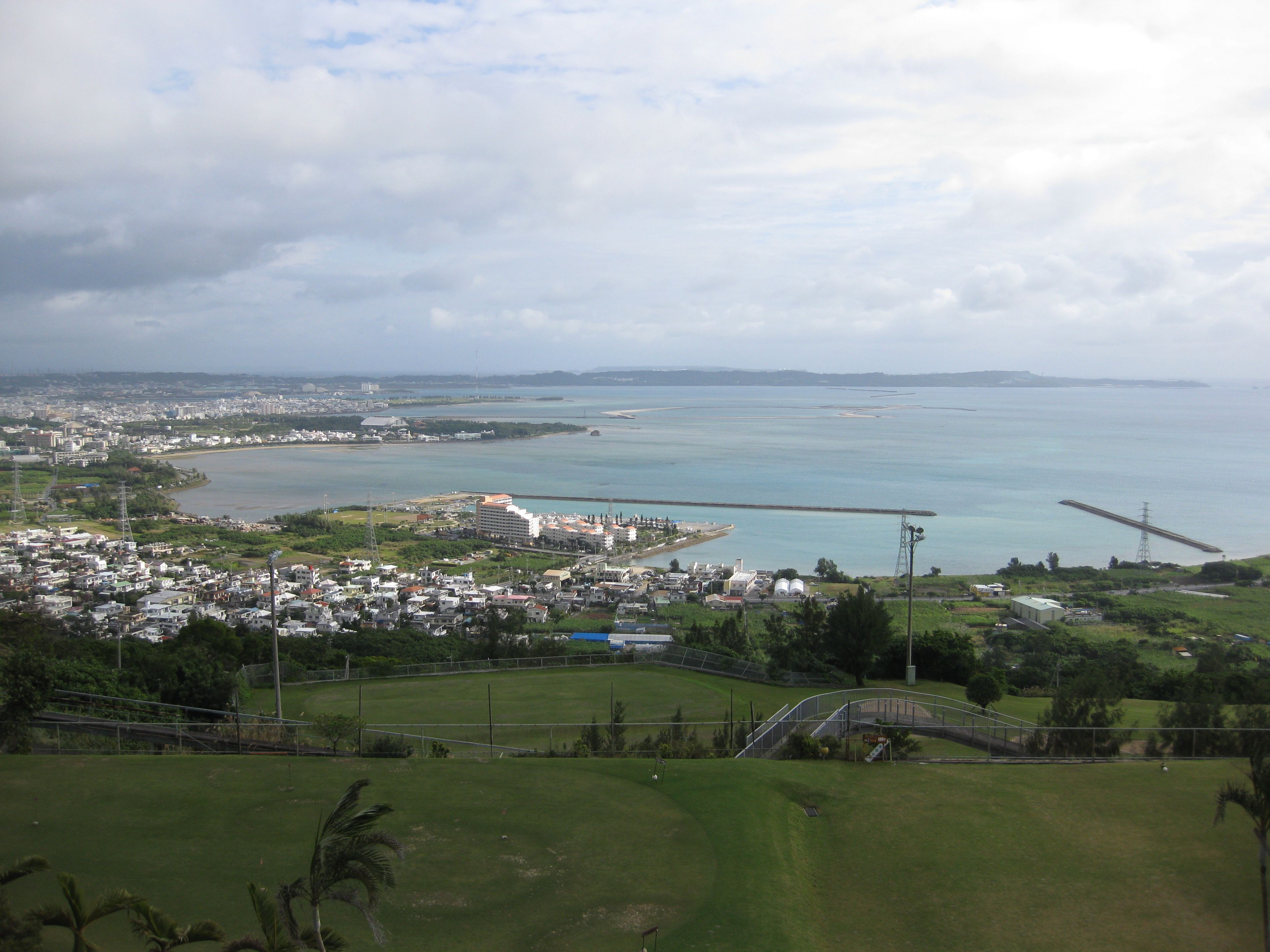 Awase Mudflat at Nakagusuku Bay of Okinawa, Japan